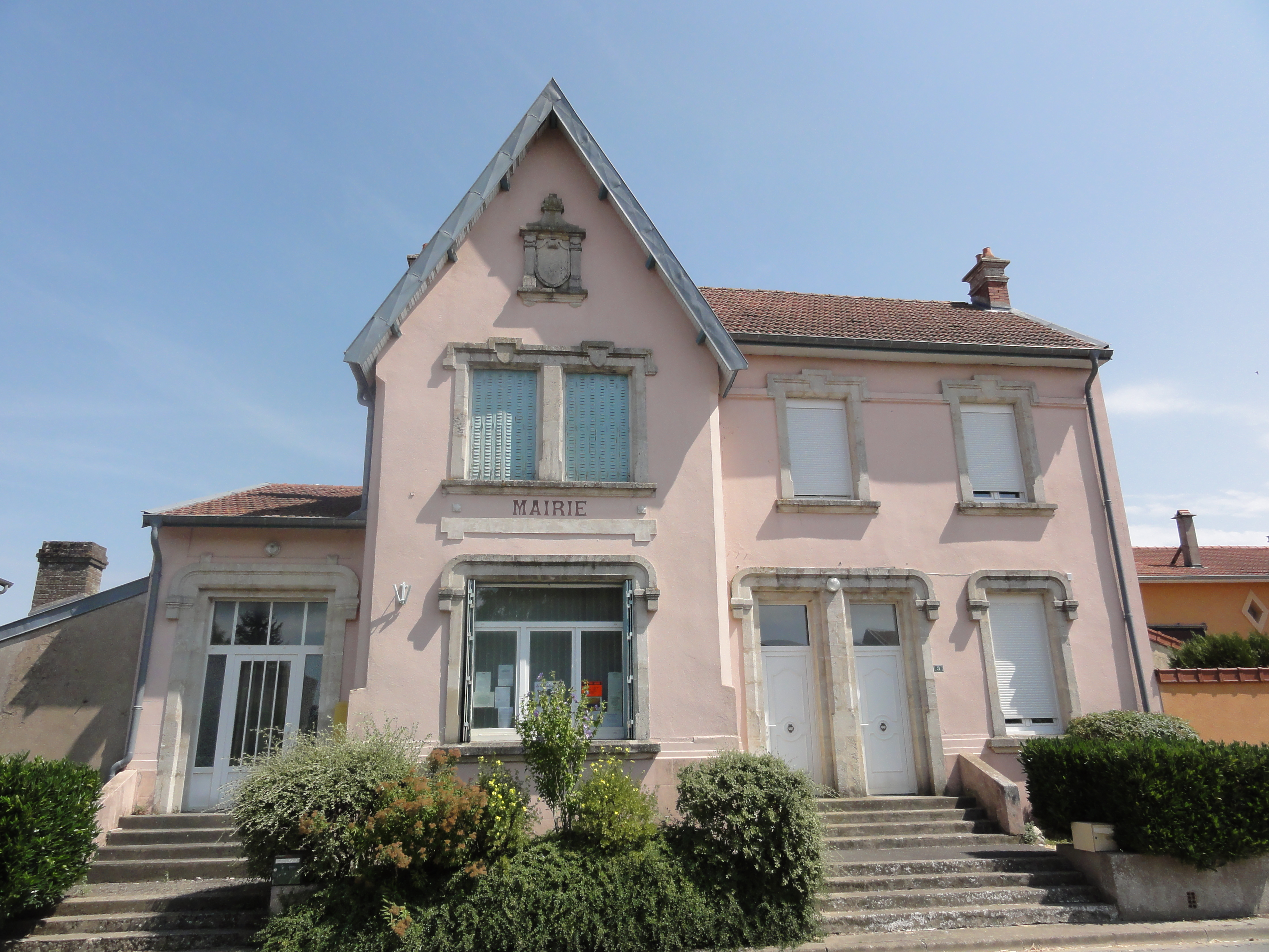 Grimaucourt-en-Woëvre (Meuse) mairie